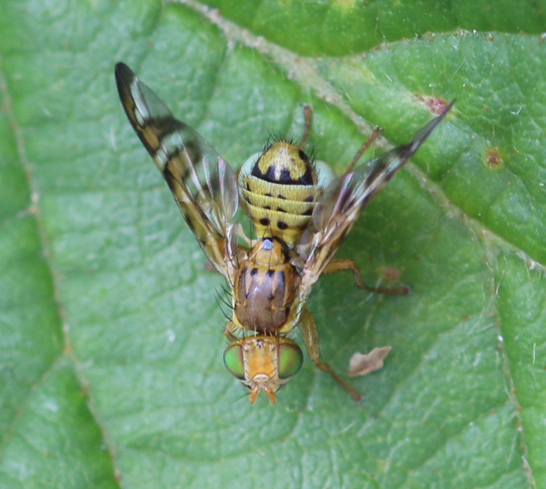 Saltoun wood, East Lothian, Scotland NT464661 Thanks to Keith Edkins for iding this little beauty.